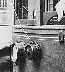 Trolley catcher / Crope to Image:Street car motorman WashingtonDC.jpg